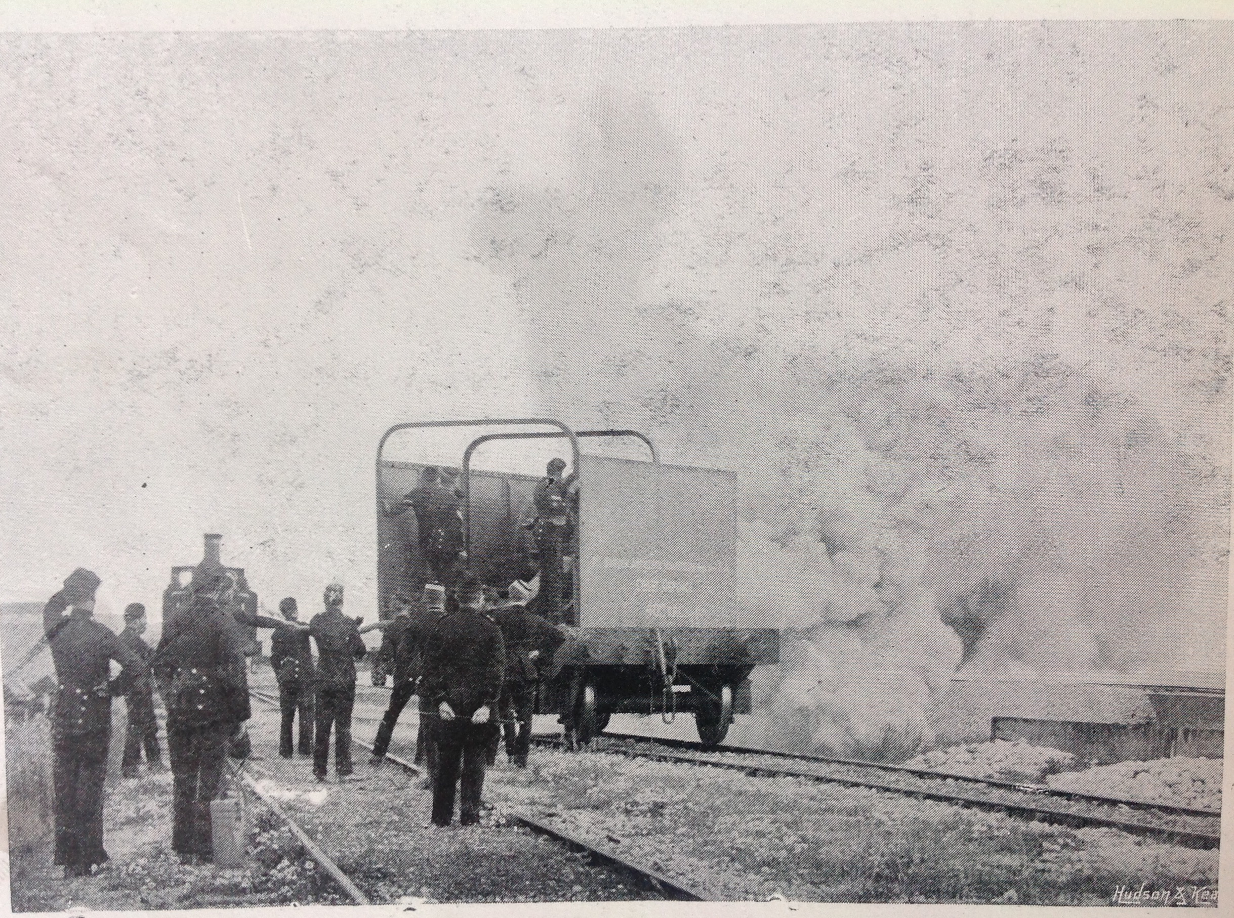 Armoured train of the 1st Sussex Artillery Volunteers. Pictured in the Navy and Army Illustrated published on 9 April 1896